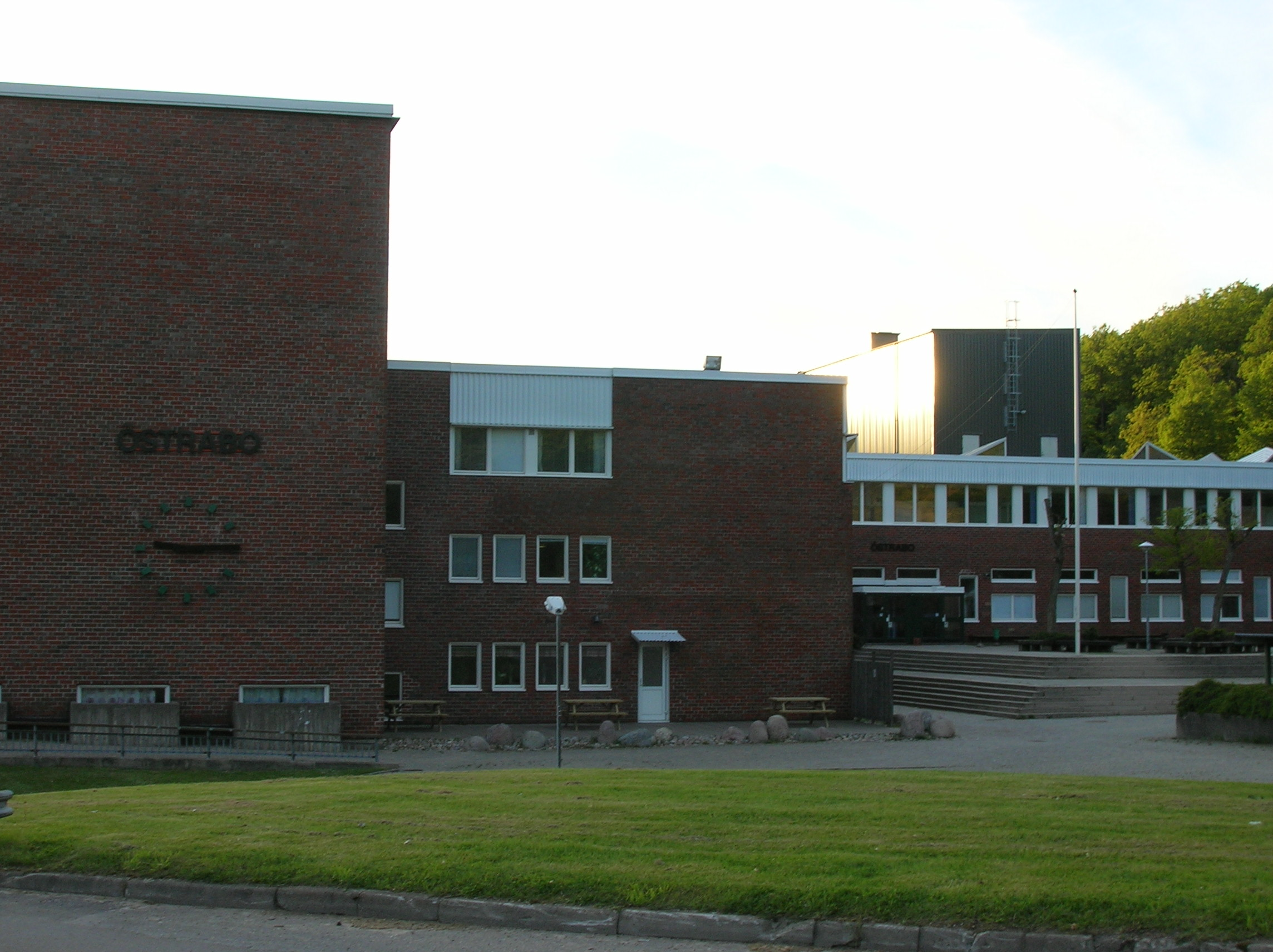 The Östrabo school in Uddevalla, Sweden